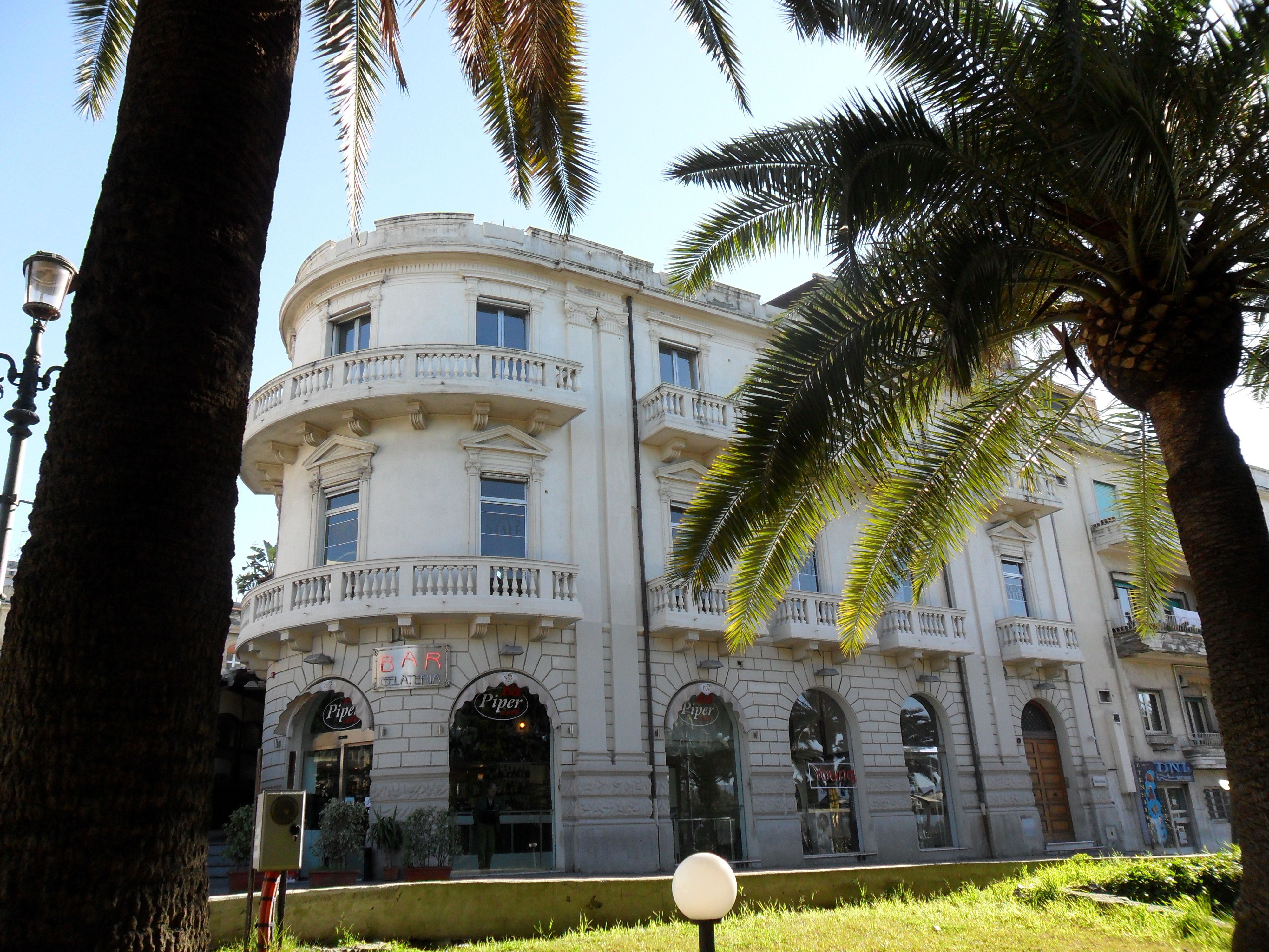 Barbera's Palace